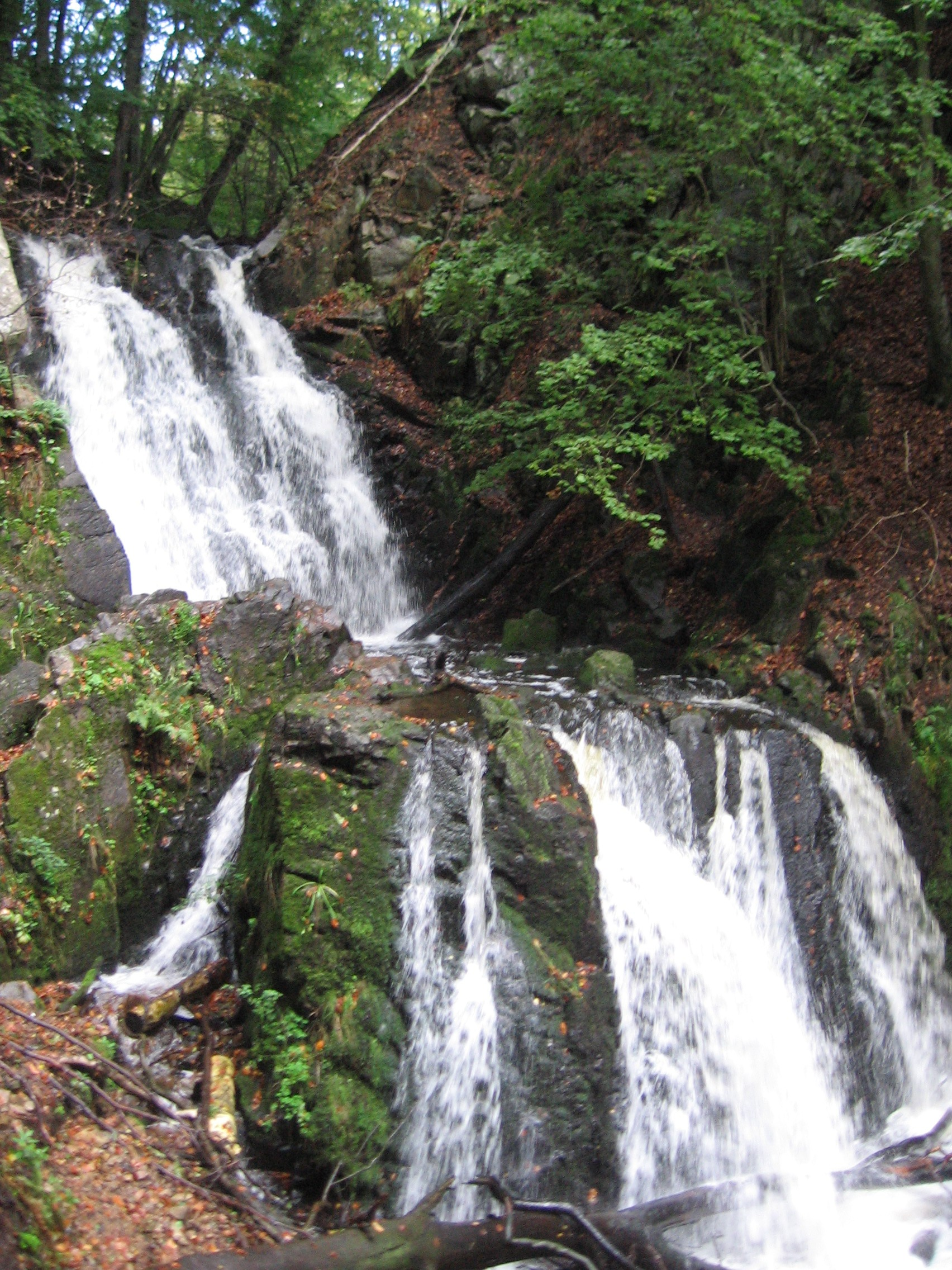 Forsakar.